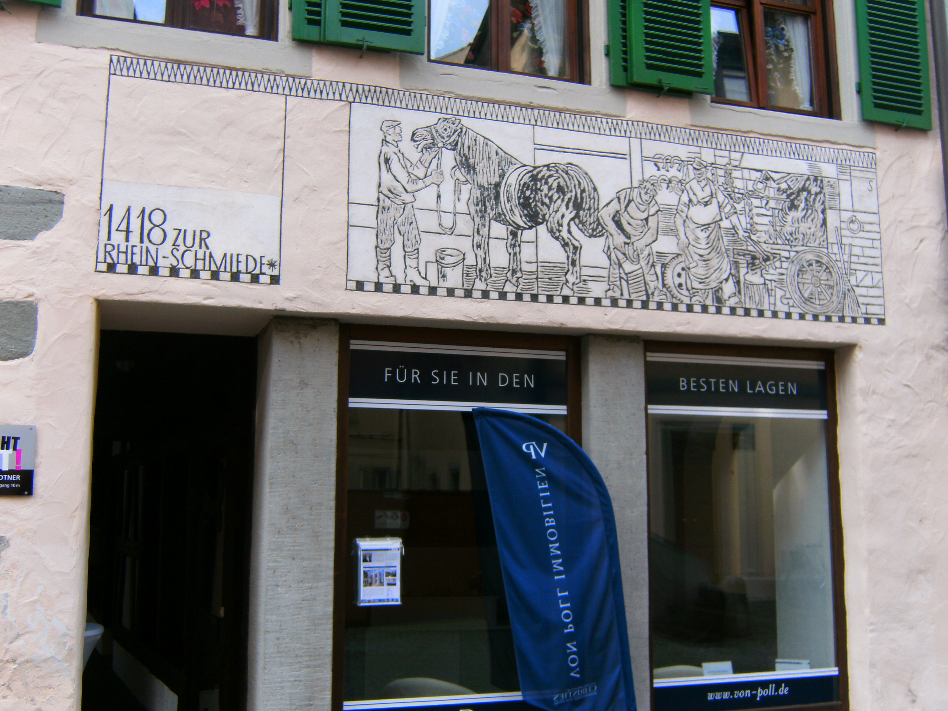 Rheingasse (Konstanz), Lake Constance in the Niederburg. Sgraffito by Hans Sauerbruch.